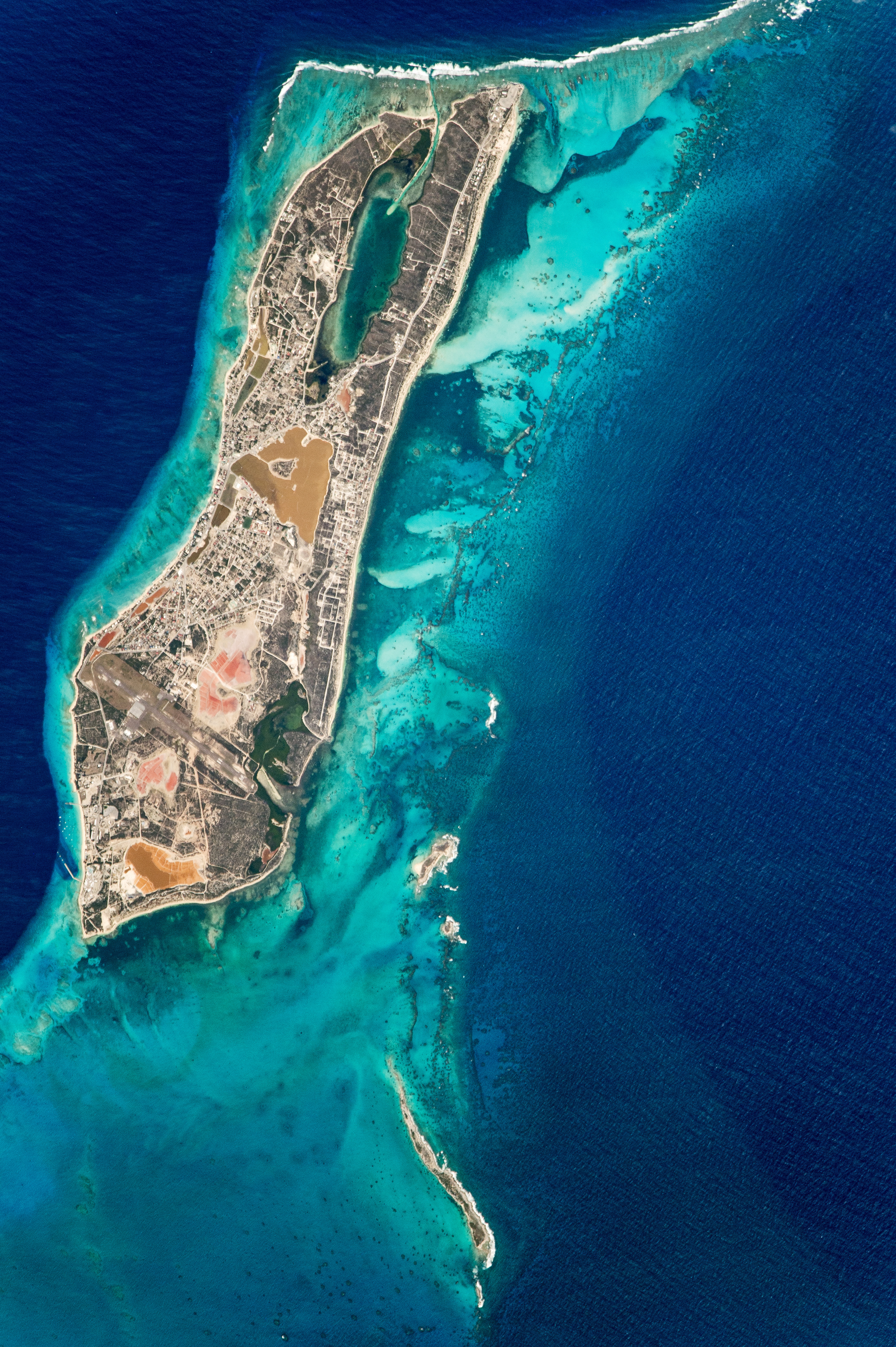 The Grand Turk Island in the Turks and Caicos Islands is photographed by crew members aboard the International Space Station. Photographs from the station record how the planet is changing over time, from human-caused changes like urban growth and reservoir construction, to natural dynamic events such as hurricanes, floods and volcanic eruptions.